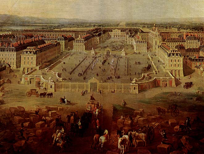 The Palace of Versailles in 1722